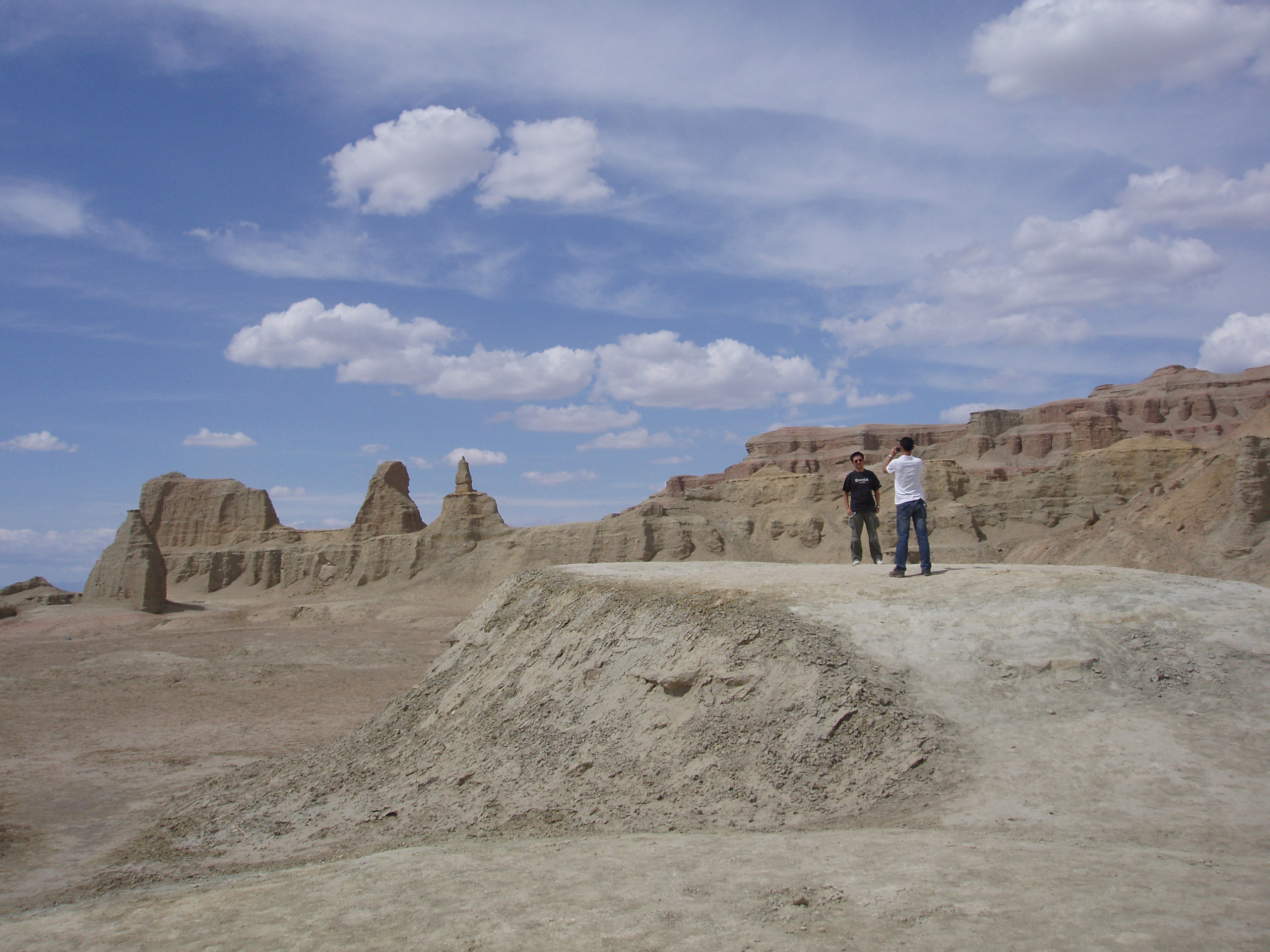 Devil's City in Xinjiang,China